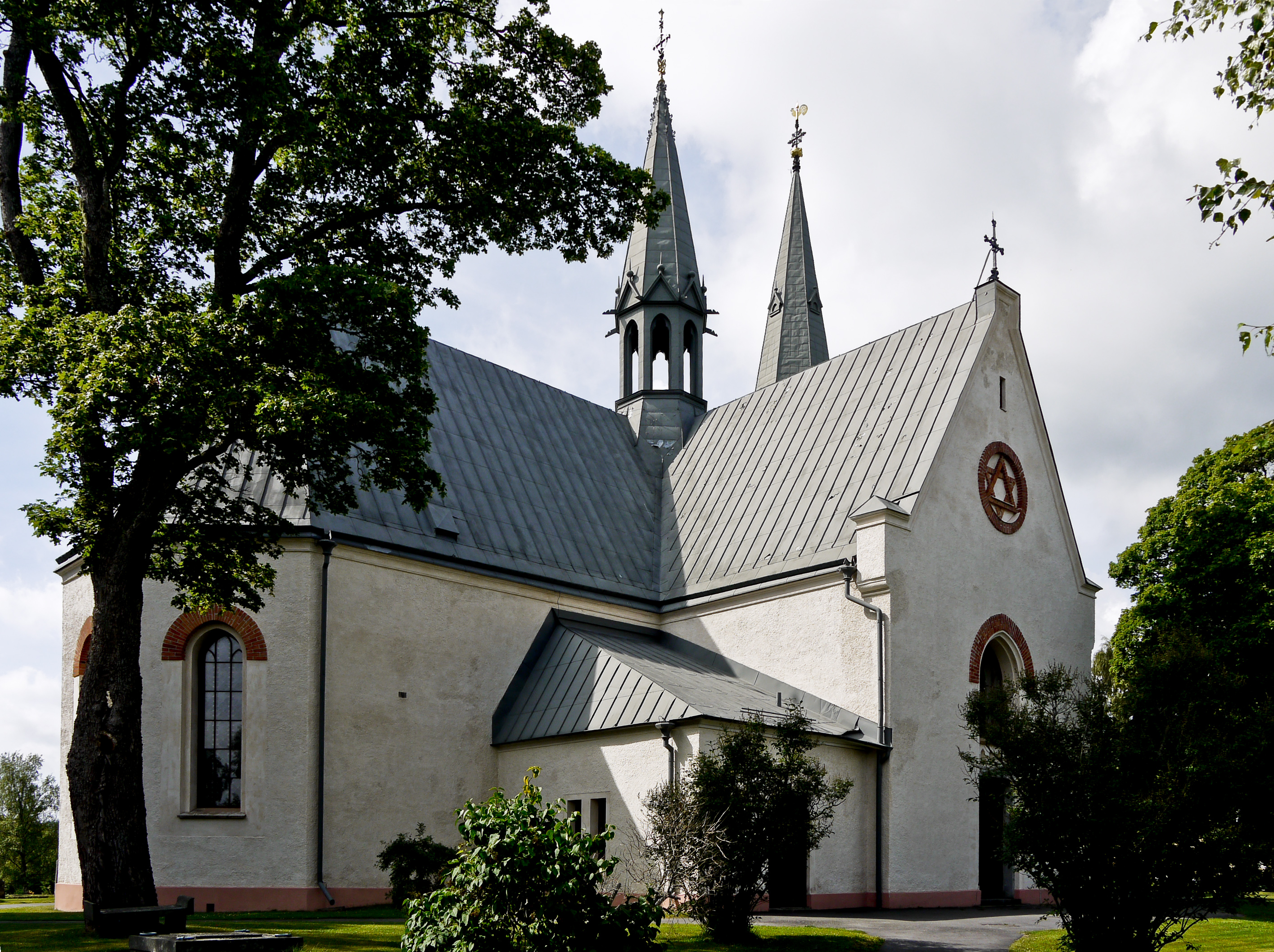 Harmånger church. Diocese of Uppsala, Harmånger, Sweden.